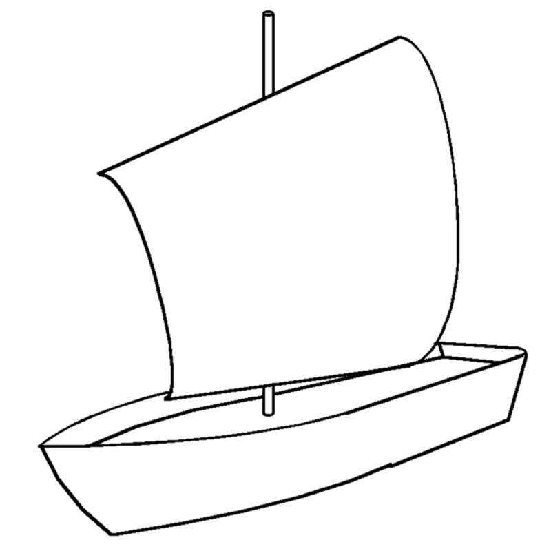 Lug Sails. the figure is drawn by Yosemite.